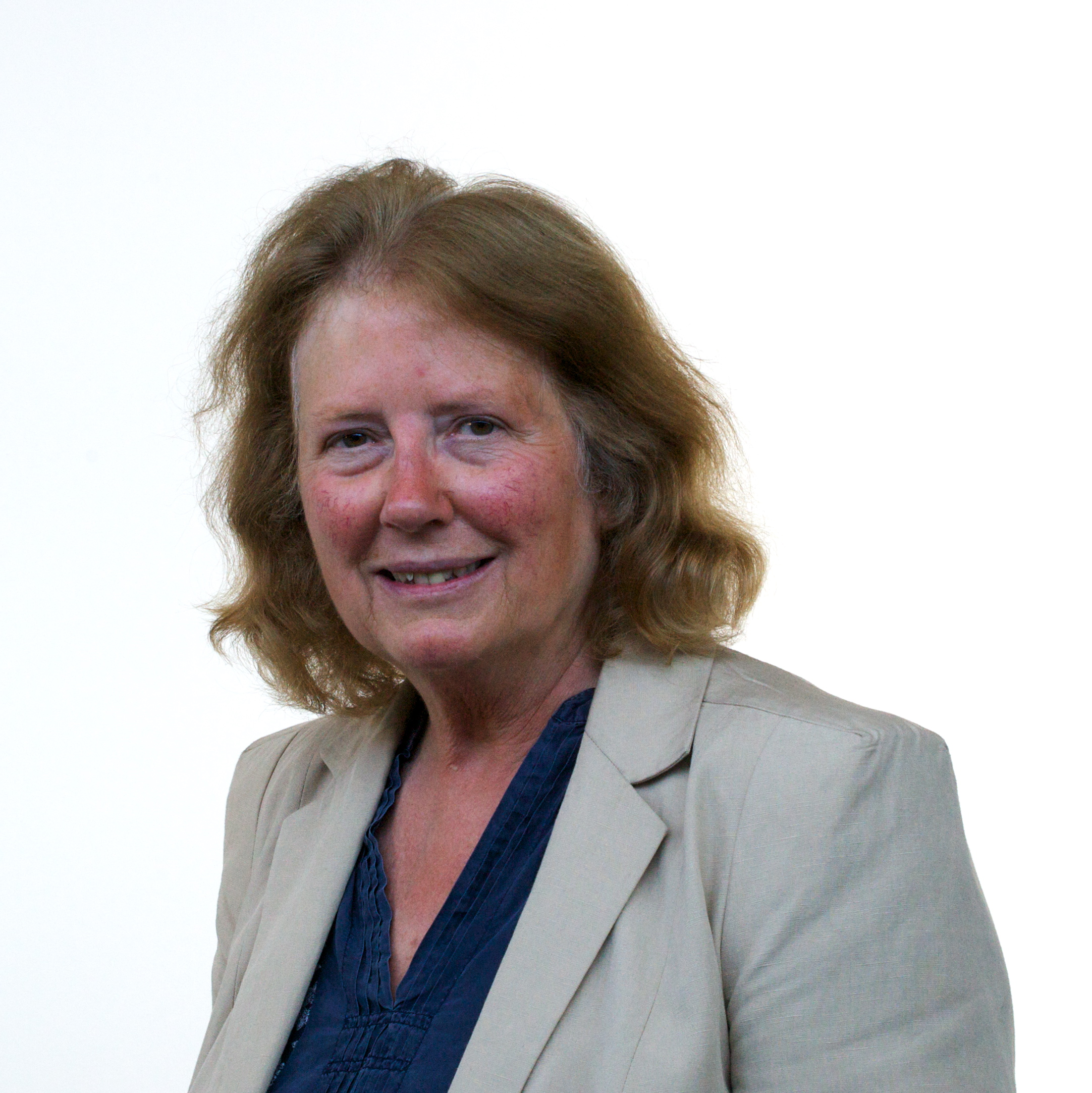 Julie Morgan AM, member of the National Assembly for Wales.